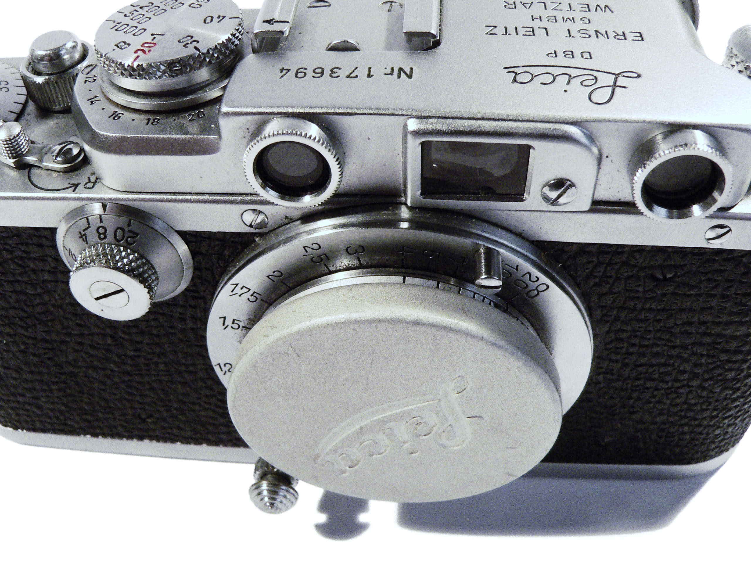 Leica III of 1935 [1]